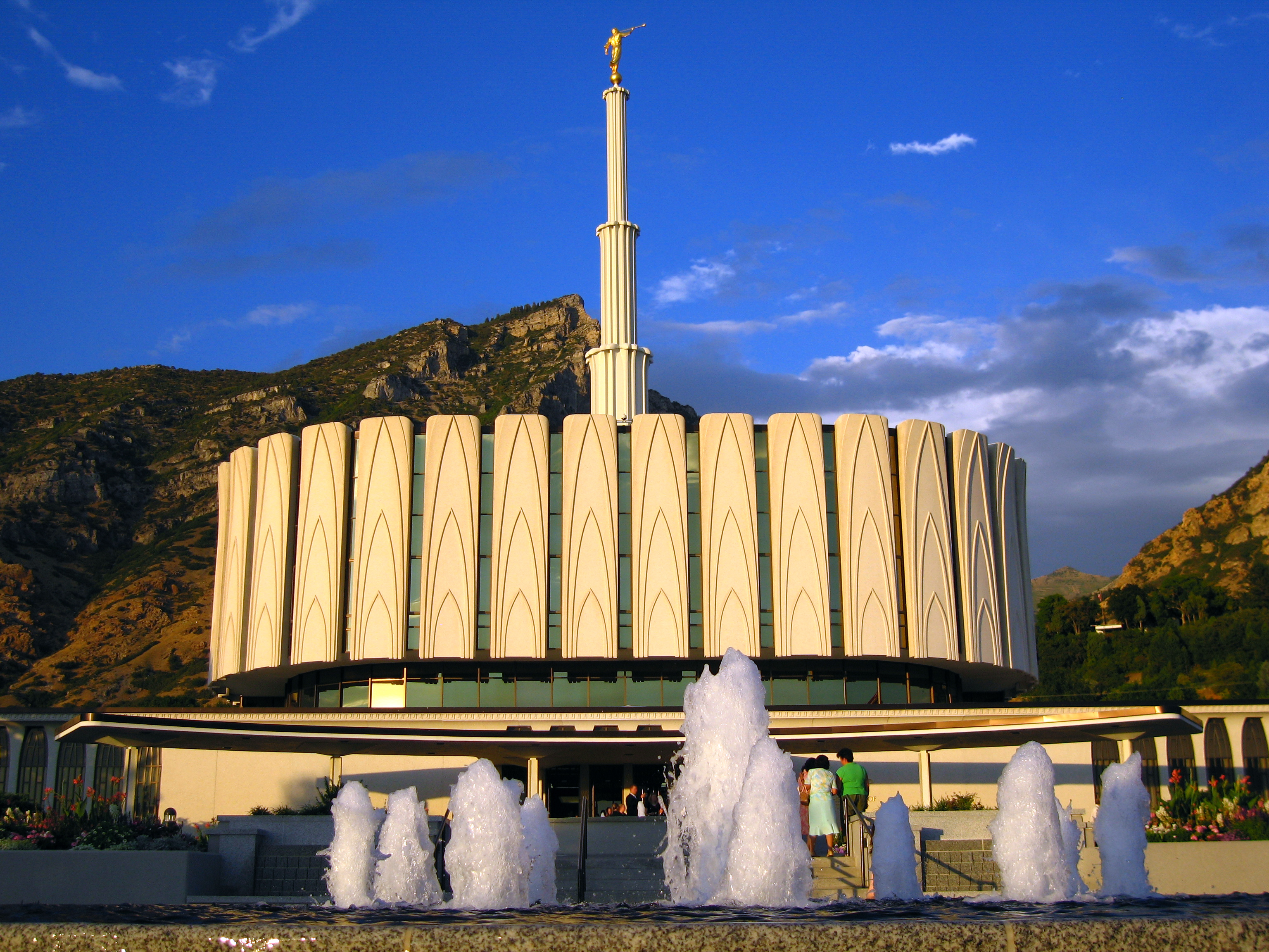 The Provo Utah Temple of The Church of Jesus Christ of Latter-day Saints. Photo by Ricardo630 Ricardo630 23:22, 27 August 2006 (UTC)